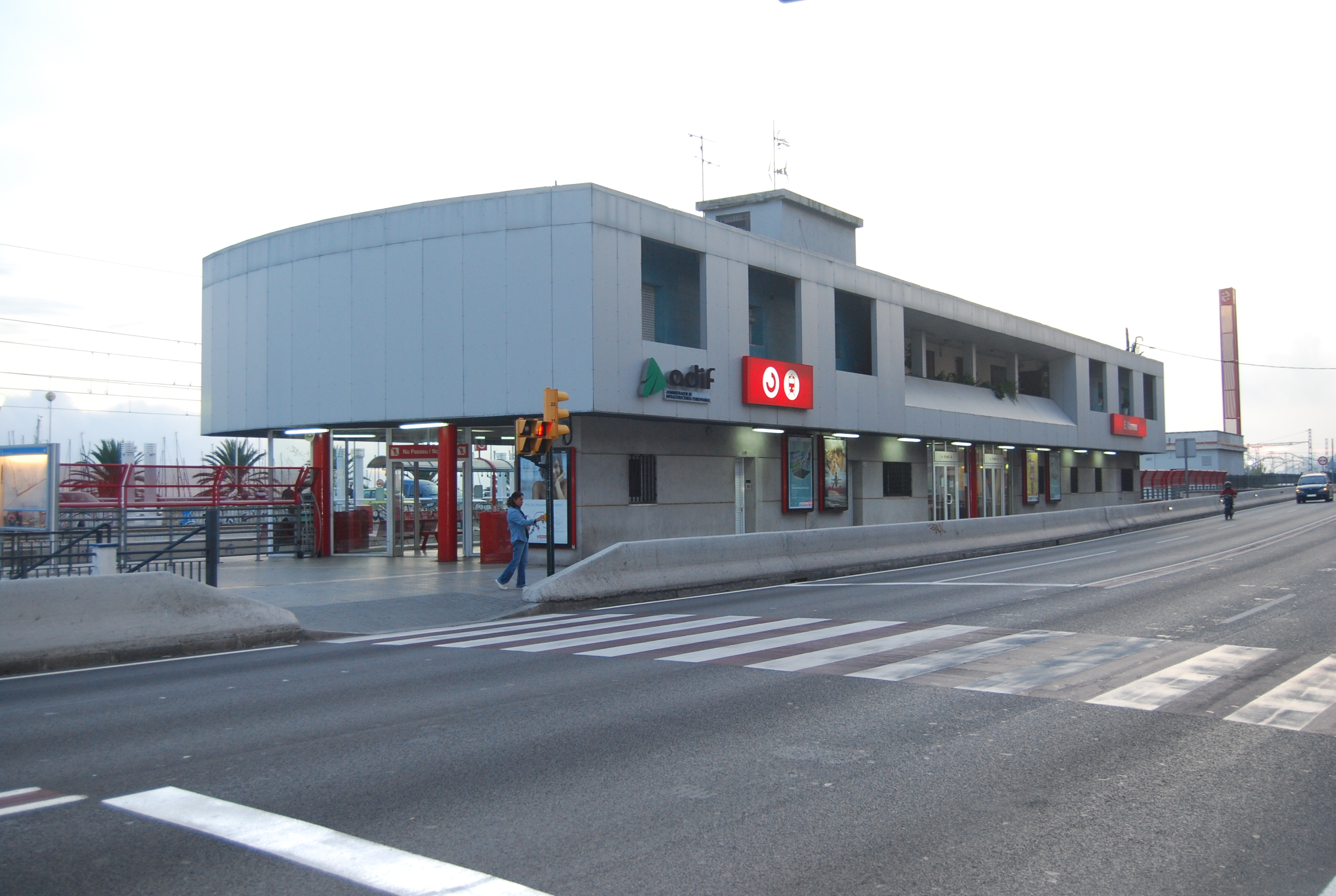 El Masnou, El Maresme, (Catalunya) train station.